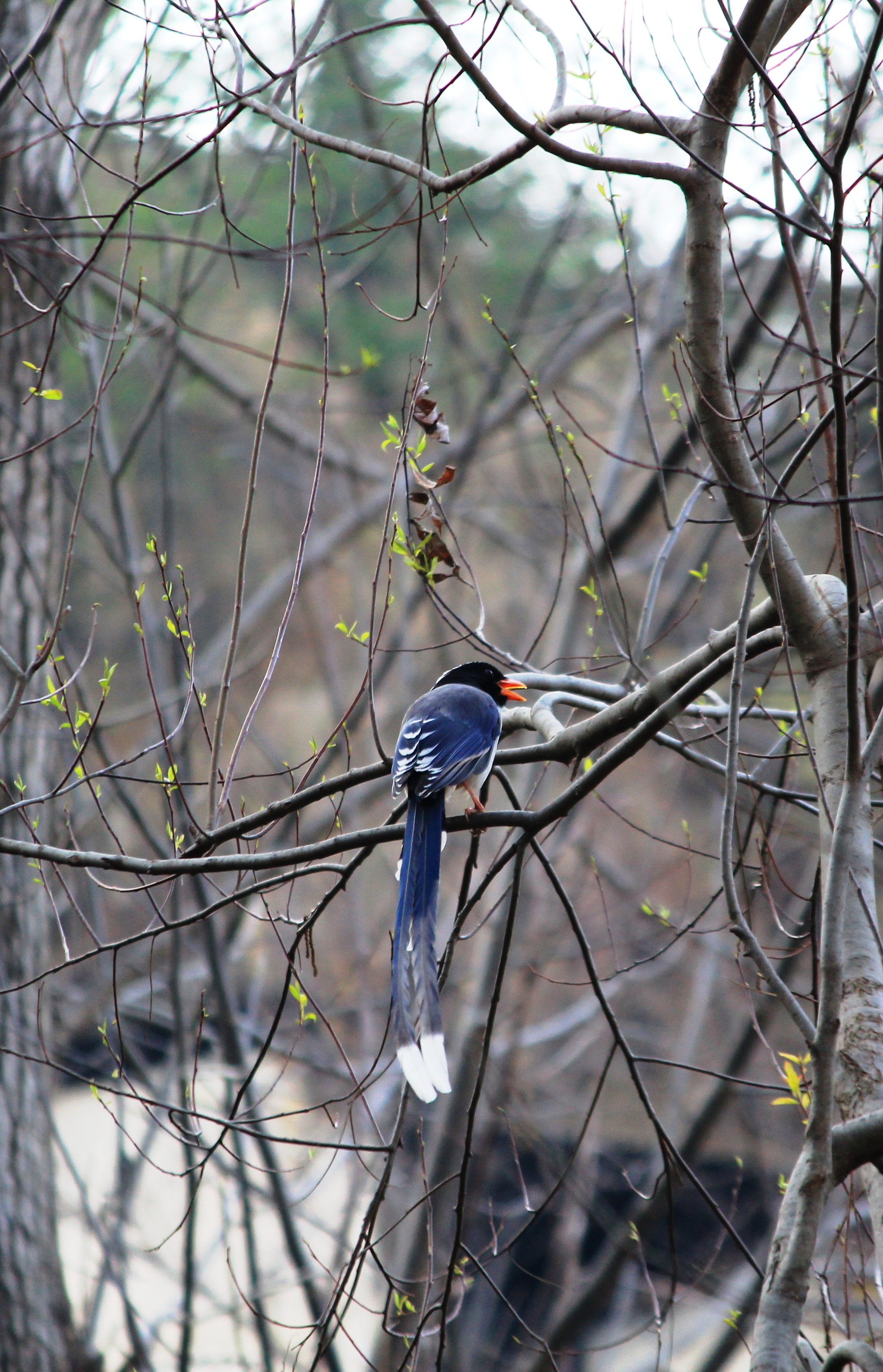 Red-billed blue magpie Scientific name: Urocissa erythroryncha Shimla Water Catchment Wildlife Sanctuary H.P.